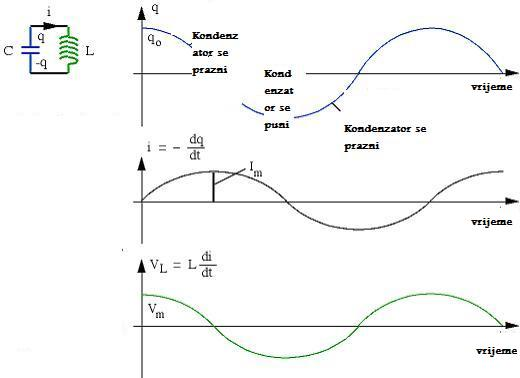 LC kolo